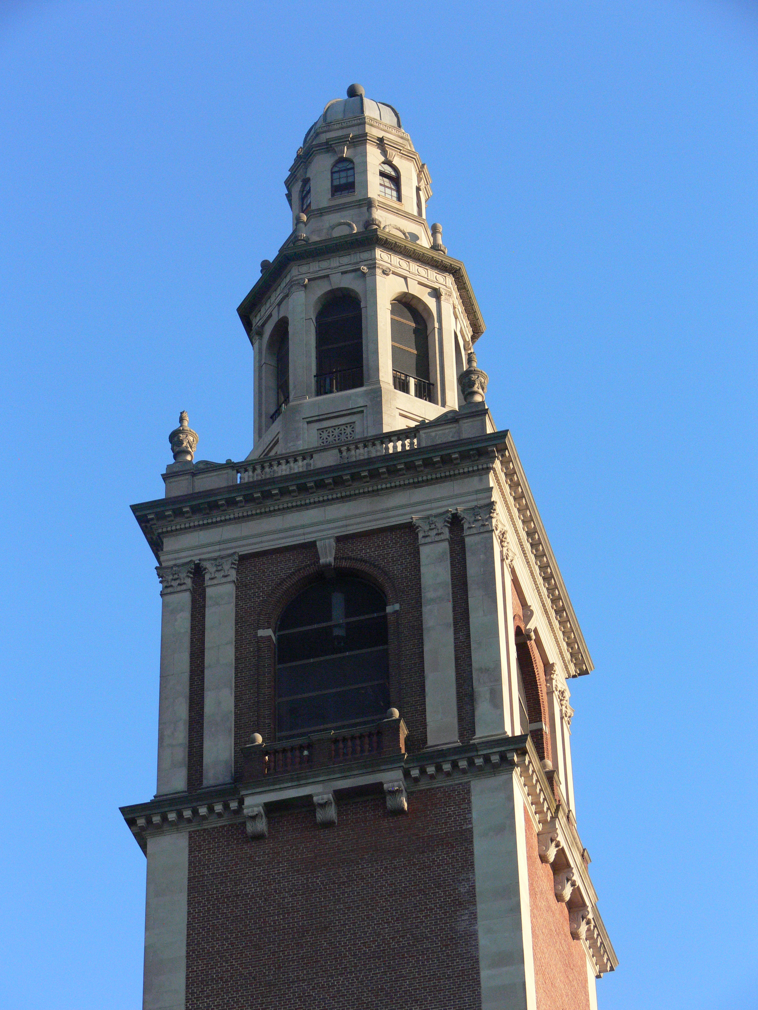 Photo of the World War I Memorial Carillon/Virginia War Memorial Carillon, in Richmond, Virginia, built 1928 (NRHP date).